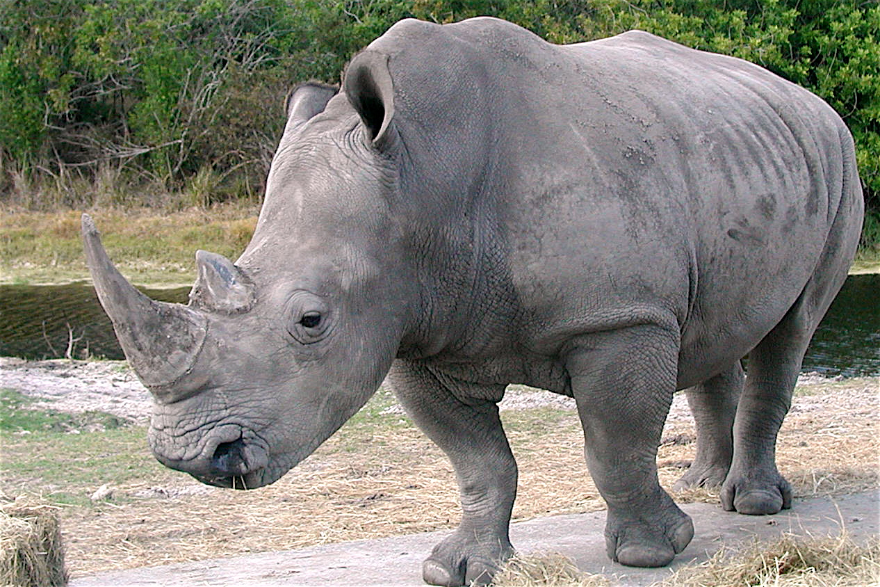 A picture taken by me, Kwh, of a White rhinoceros (Ceratotherium simum)